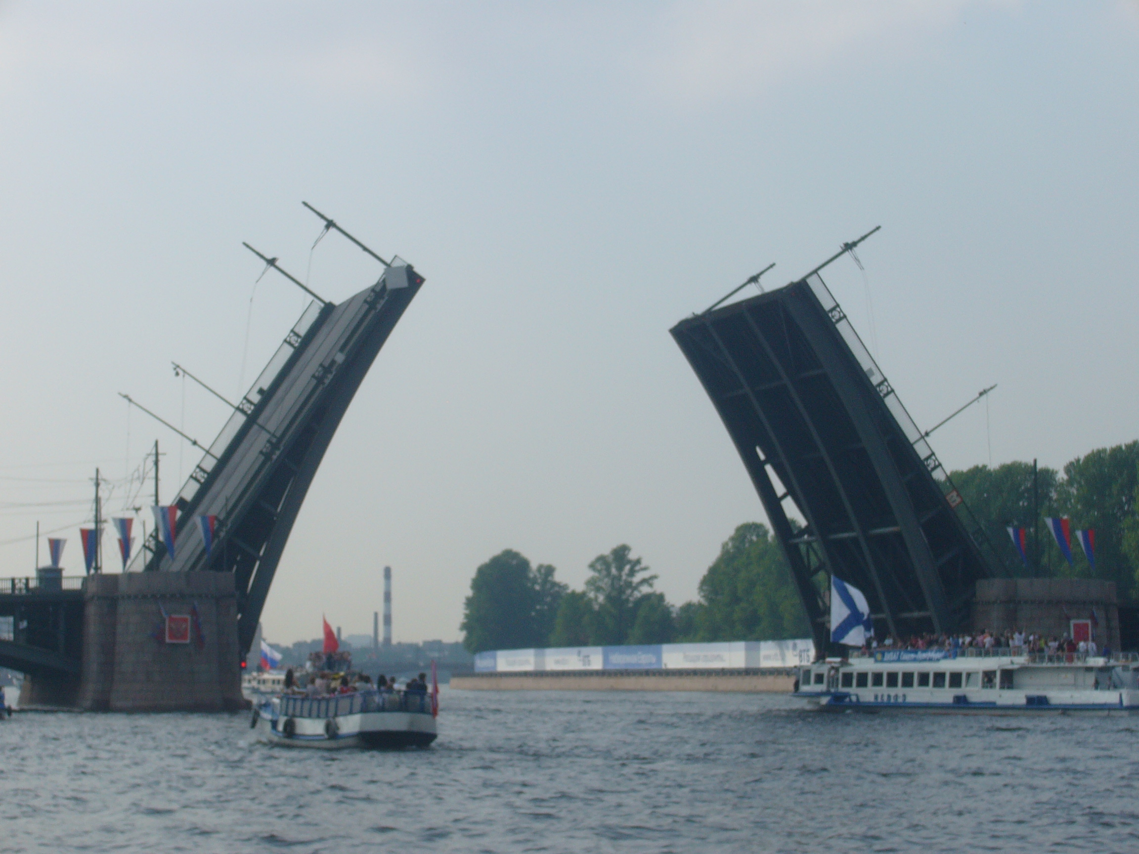 Exchange bridge across Neva, St. Petersburg.